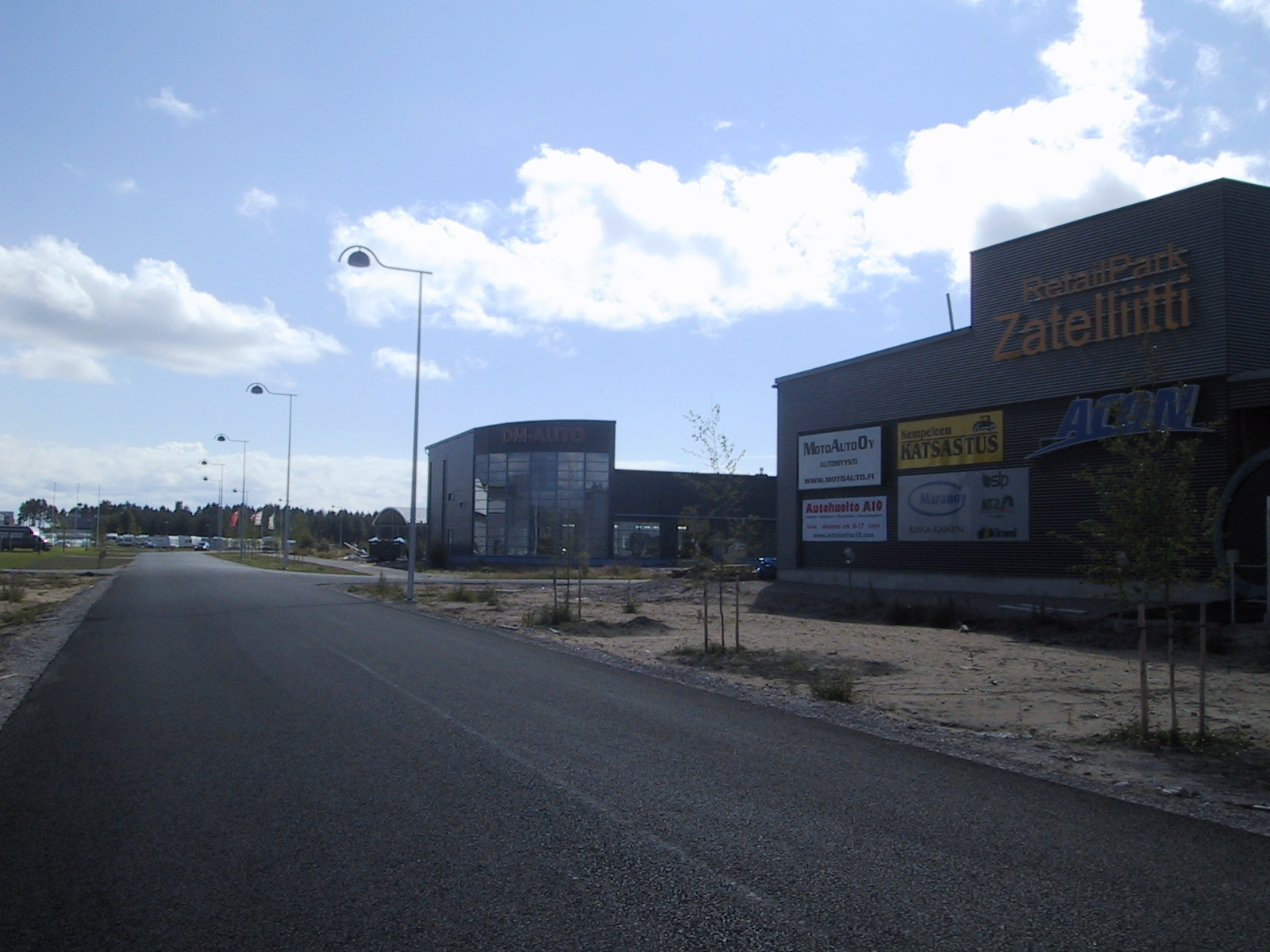 Zateliitti, in Kempele Finland.